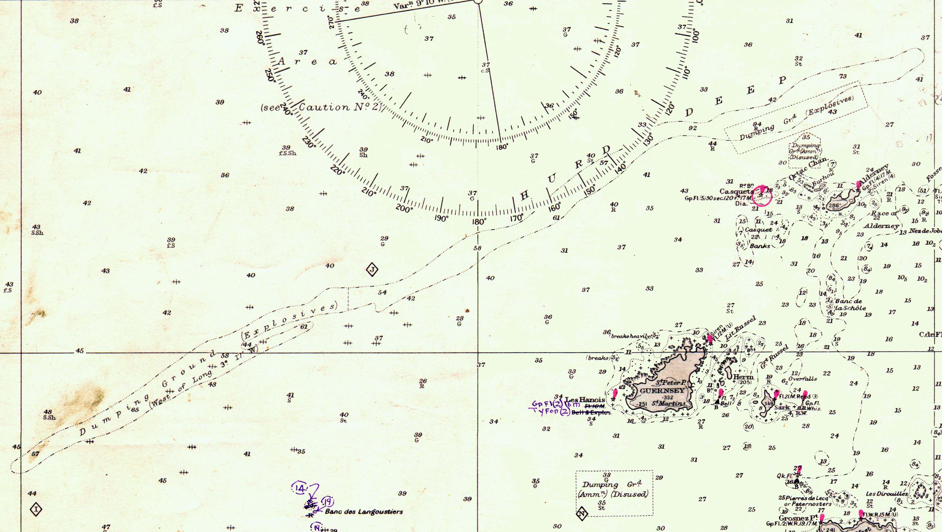 Nautical chart covering the area from the Isles of Scilly to Portsmouth and Ile d'Ouessant to Barfleur to a scale of 1/500,000. Printed corrections to 1964, with later corrections added by hand. Not current - not to be used for navigation!